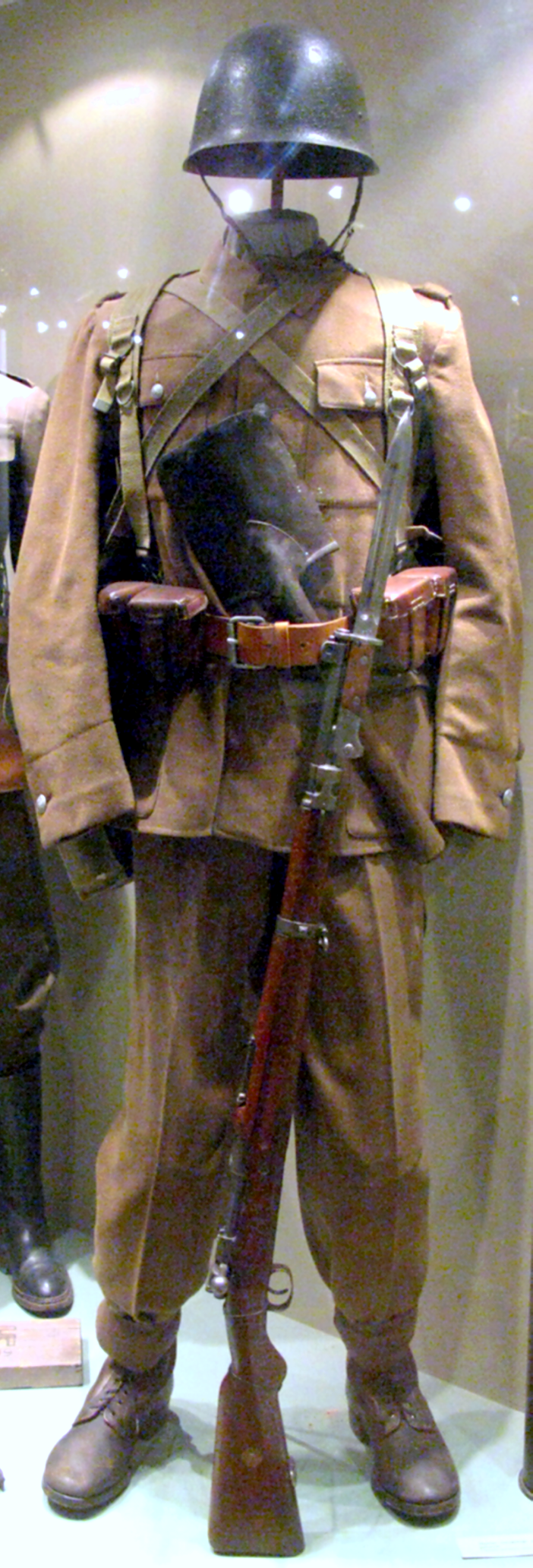 Uniform of Polish Infantry soldier before 1939